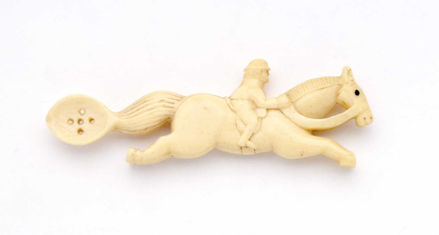 Alaskan spoon for inhaling powder substances